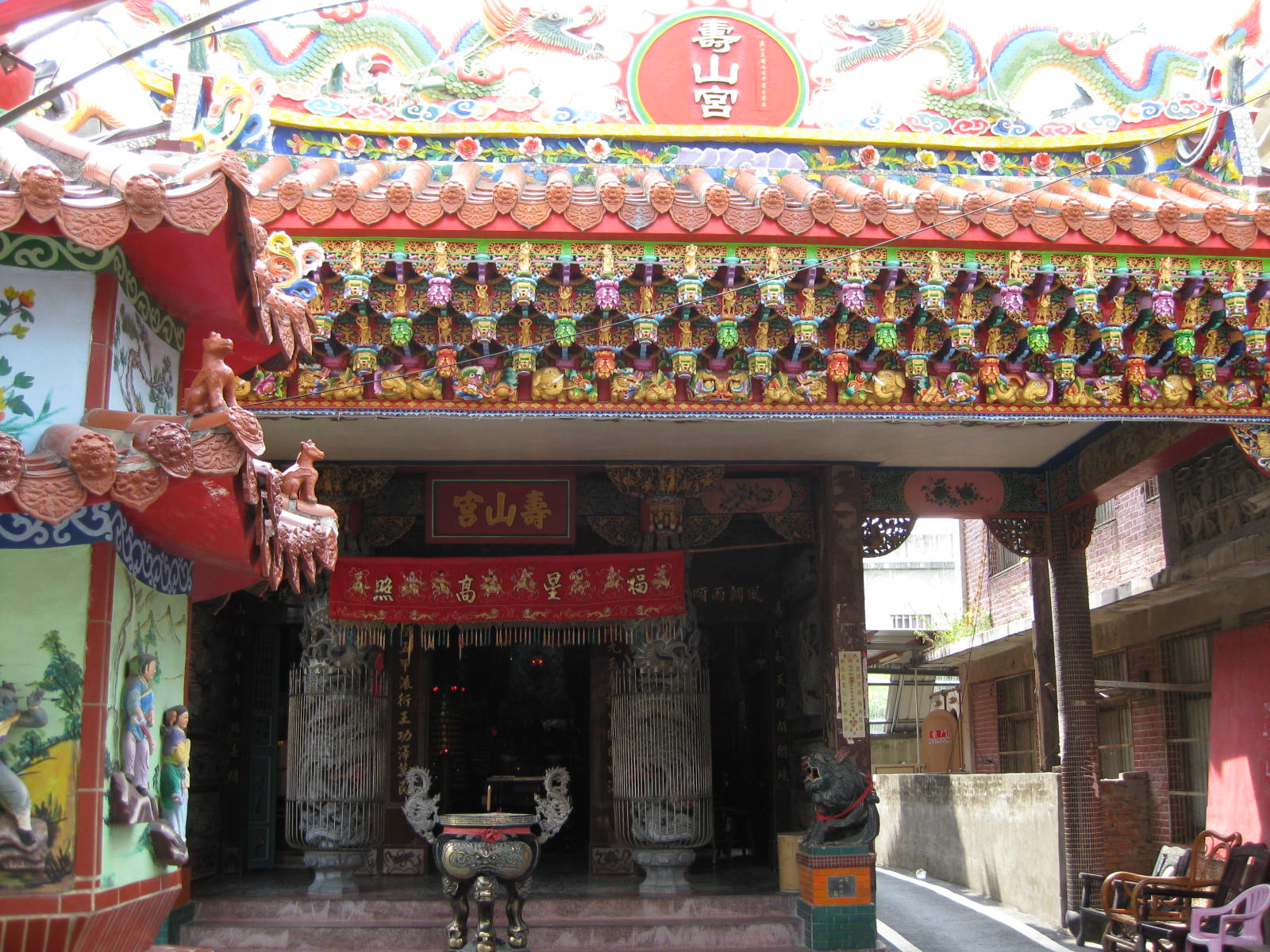 Shoushan Temple